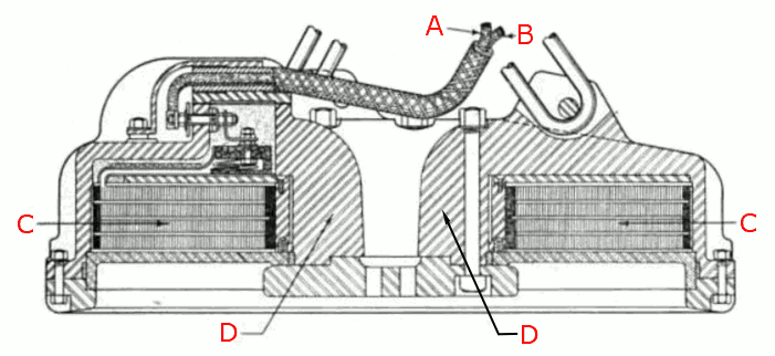 Drawing of an industrial lifting electromagnet made by Cutler-Hammer, showing construction, from a 1914 book on electricity. The magnet is disk shaped, and the drawing is a section through the axis. The labelled parts are identified in the text as: (A,B) wires from DC power source, (C) windings made of flat copper strip insulated with mica and asbestos, (D) thick iron casing wrapping around the windings that forms the magnetic circuit. The thick core in the center forms one pole of the magnet, and the thinner circular rim on the outside forms the other pole. Alterations to image: rotated slightly to correct scanning error, replaced hard to read part labels with colored labels, added second righthand C label, erased some compression artifacts in the surrounding whitespace, converted to PNG.